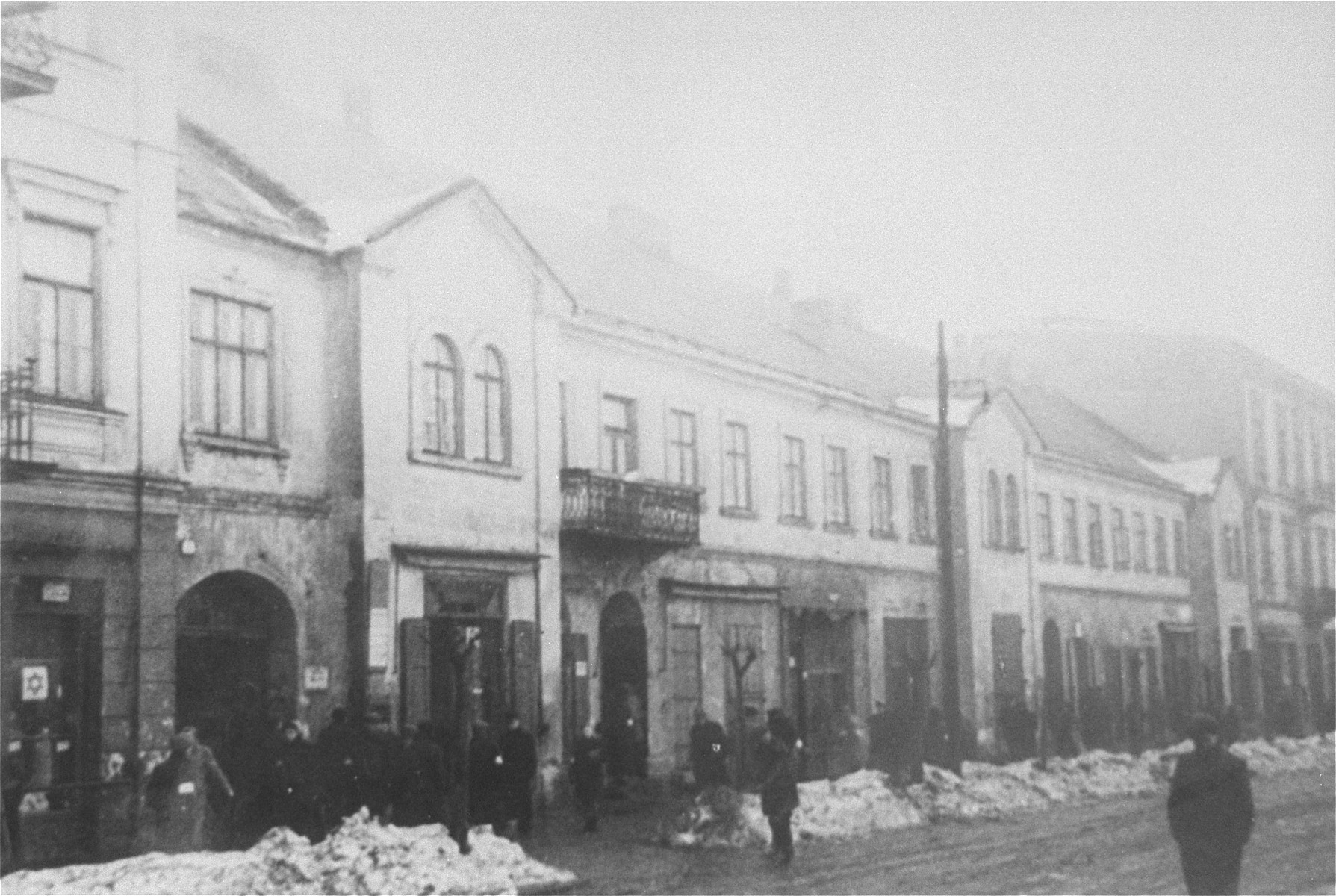 First Avenue, the western part of large ghetto in Częstochowa, Poland (circa 1941)